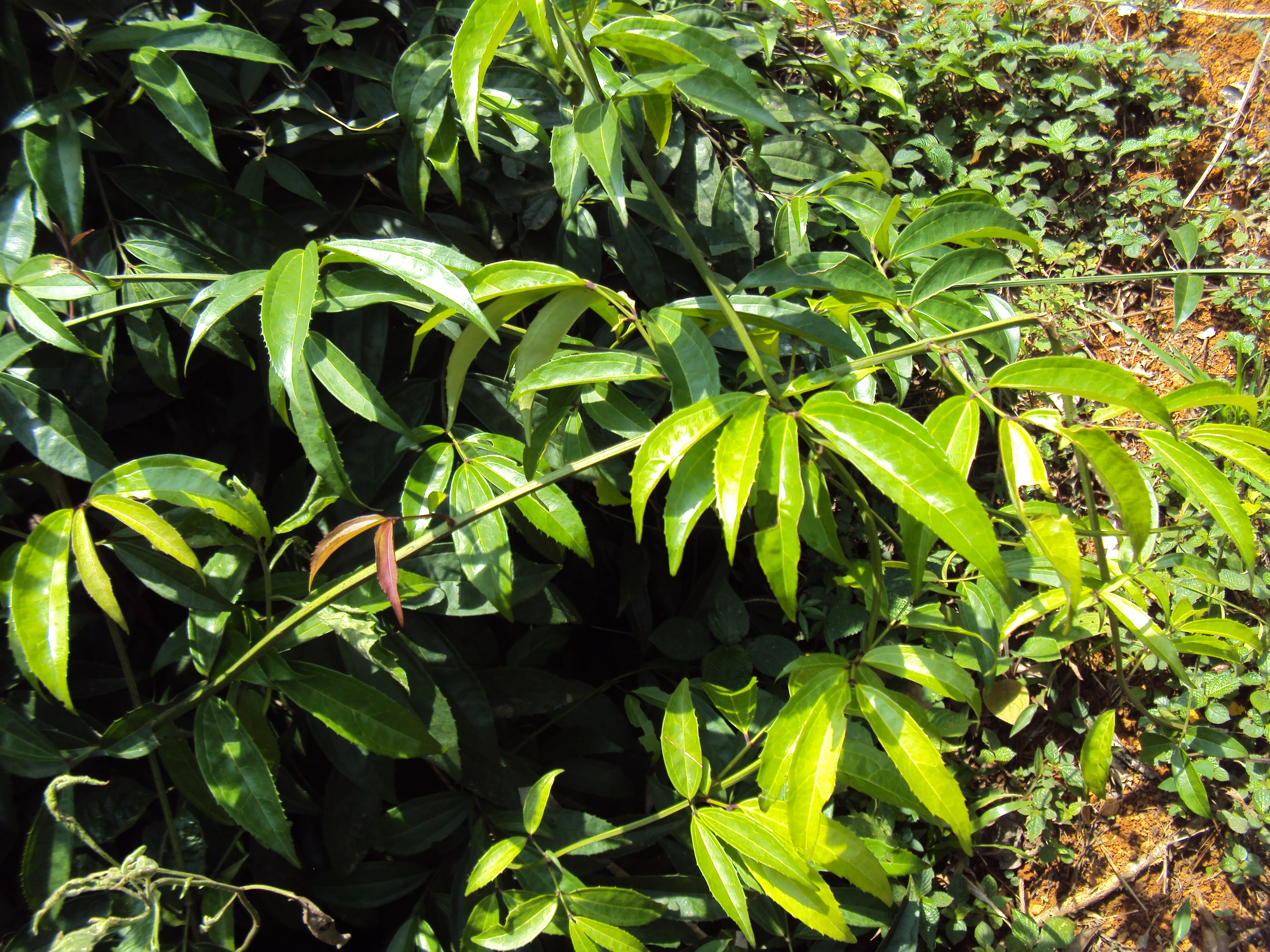 Myxopyrum smilacifolium